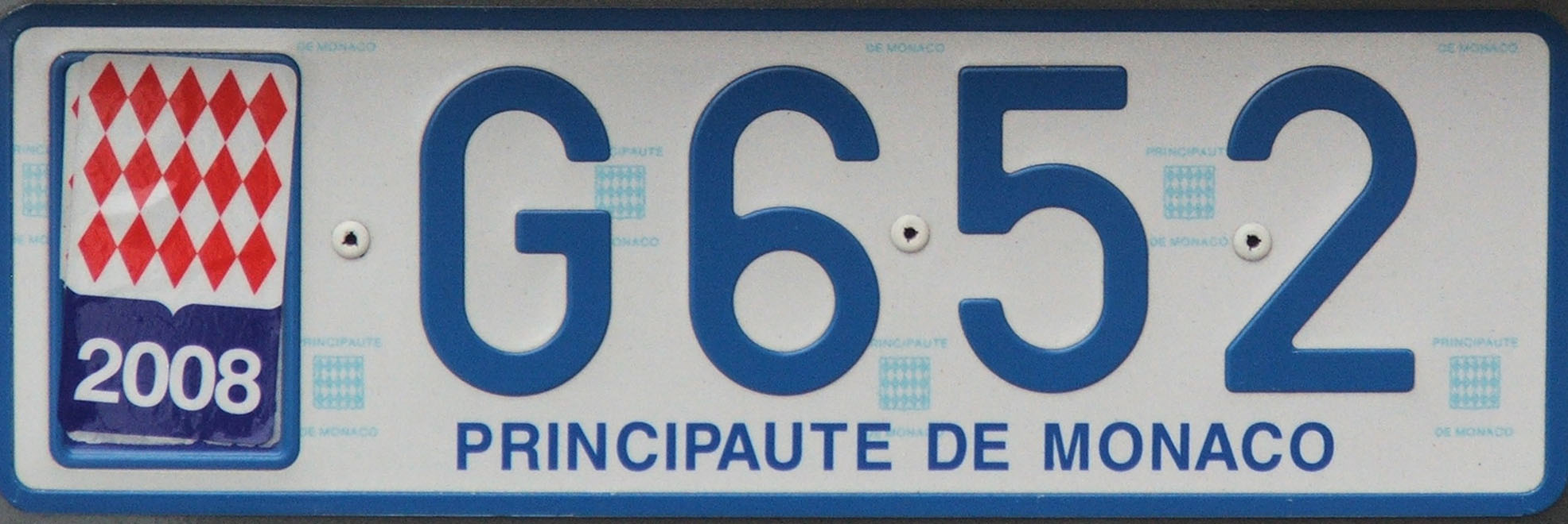 Vehicle licence plate from Monaco as seen in 2008.